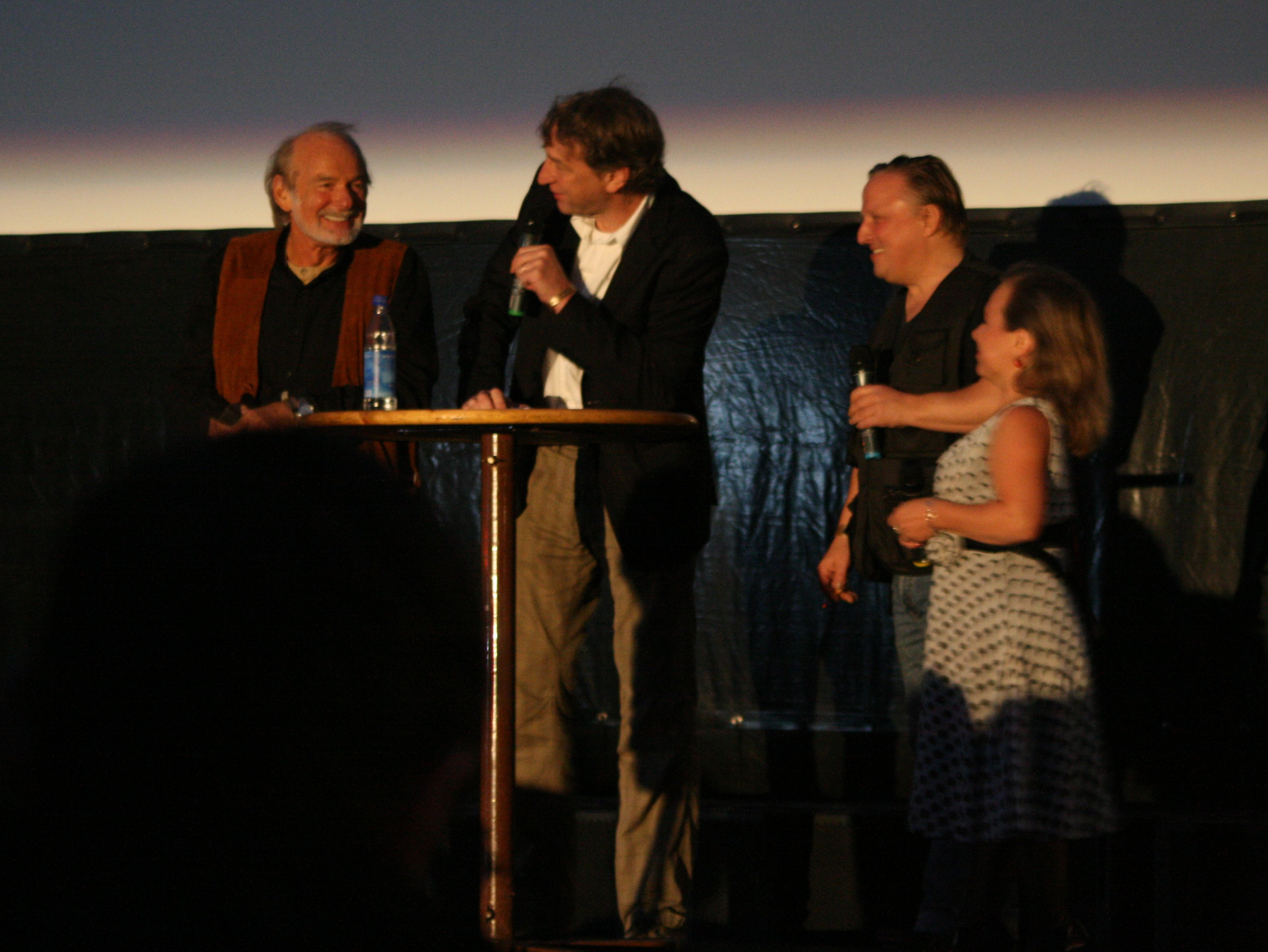 Premiere of Tatort: Zwischen den Ohren in Münster with Claus Dieter Clausnitzer, Axel Prahl, and Christine Urspruch